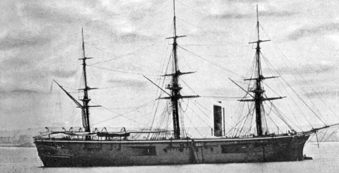 Photograph of British ironclad HMS Penelope.